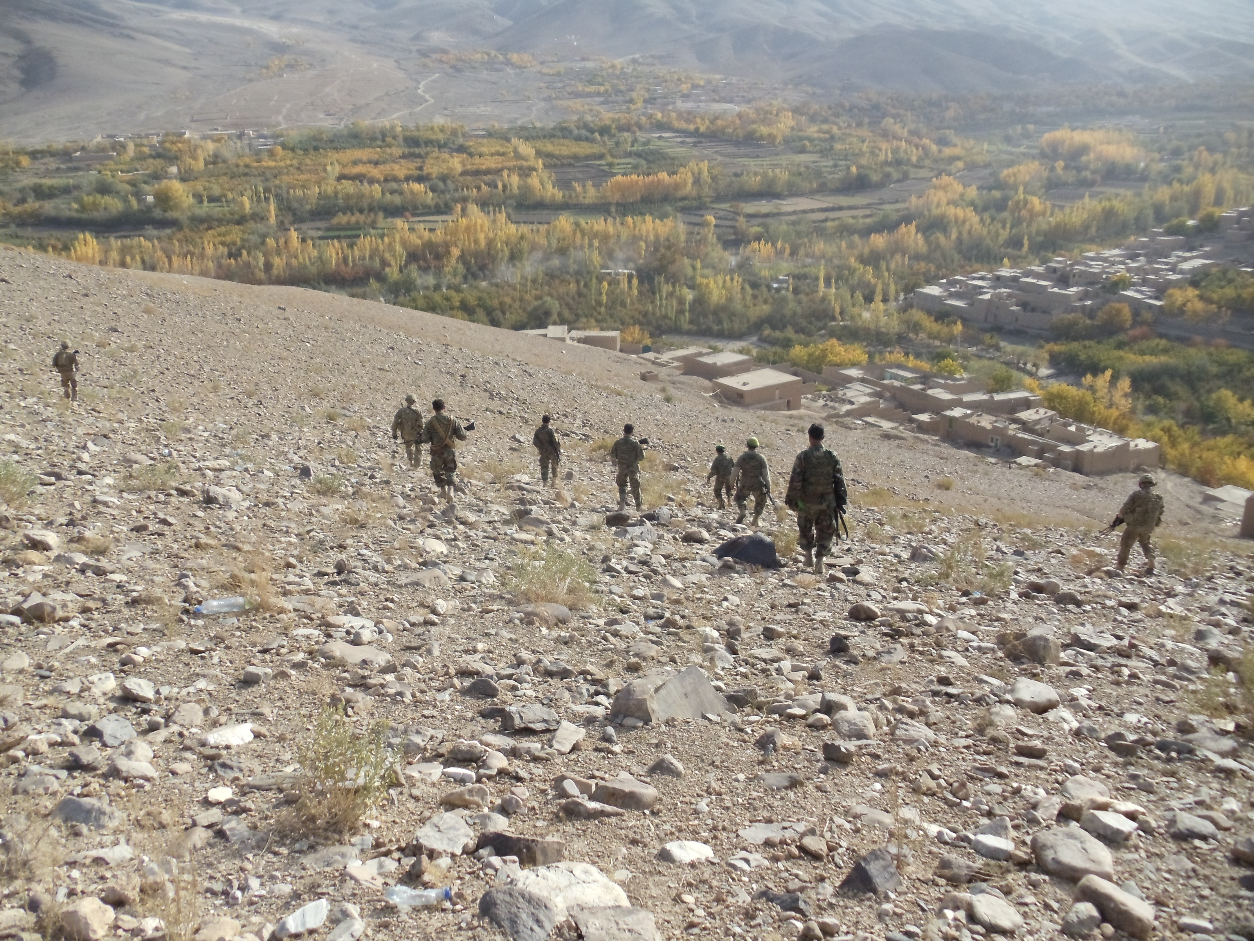 CHARLIE COMPANY 9TH ENGINEER BATTALION PARTNERED DISMOUNTED PATROL WITH AFGHAN ARMY INTO LWAR VILLAGE, CHAK DISTRICT, WARDAK PROVINCE NOVEMBER 2011